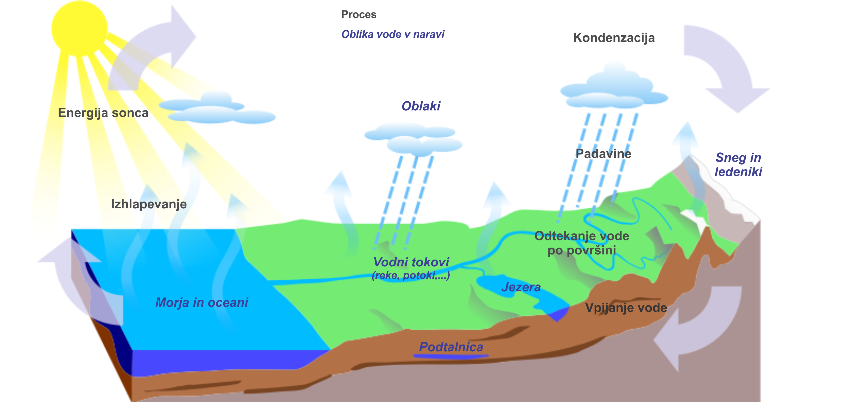 Water cycle in Slovene language; based on